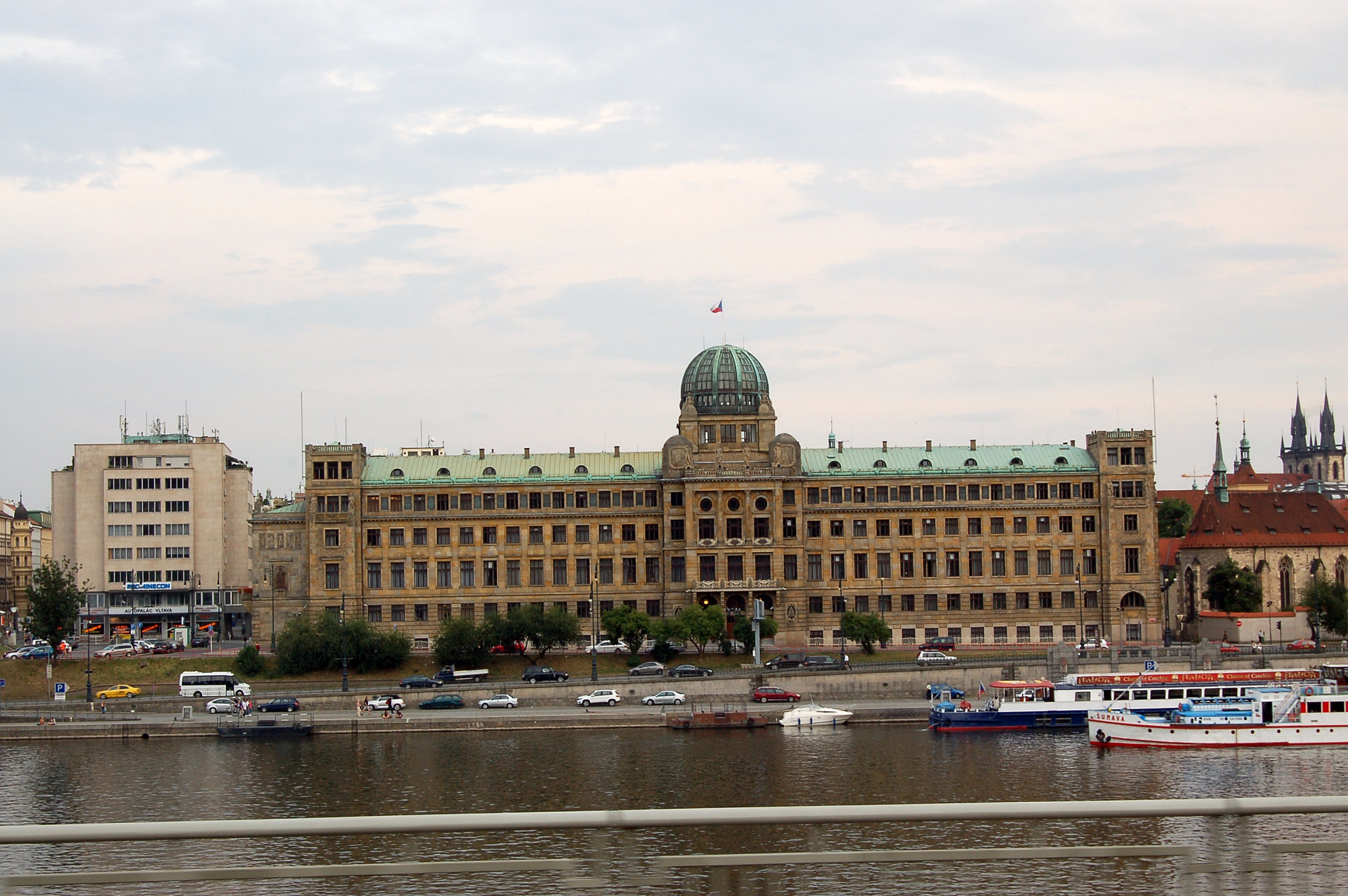 Prague 7, Czech Republic